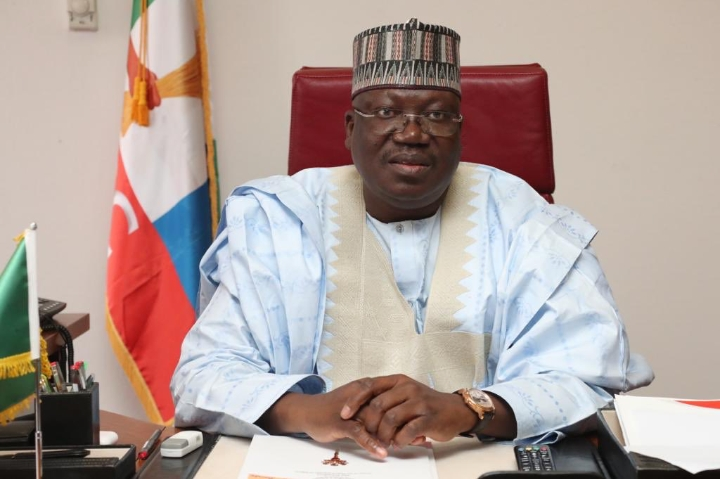 Official portrait of Ahmed Ibrahim Lawan the Senate President of Nigeria